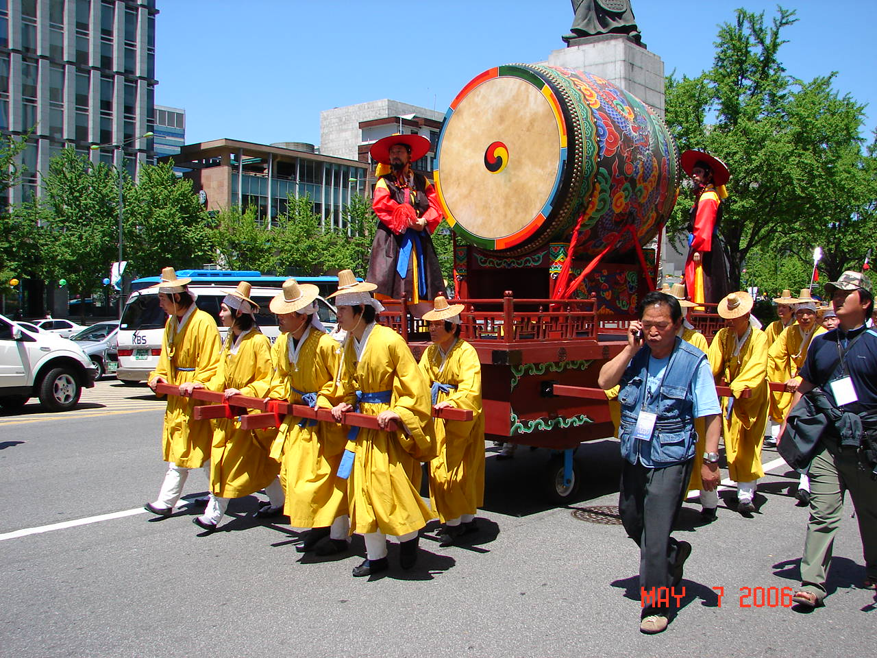 Military guard from Deoksugung (palace) participating in a Hi! Seoul Festival procession